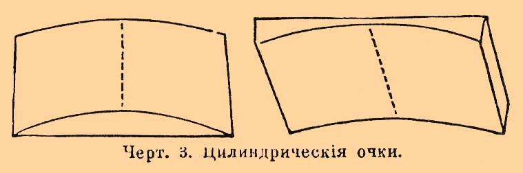 Illustration from Brockhaus and Efron Encyclopedic Dictionary (1890—1907)